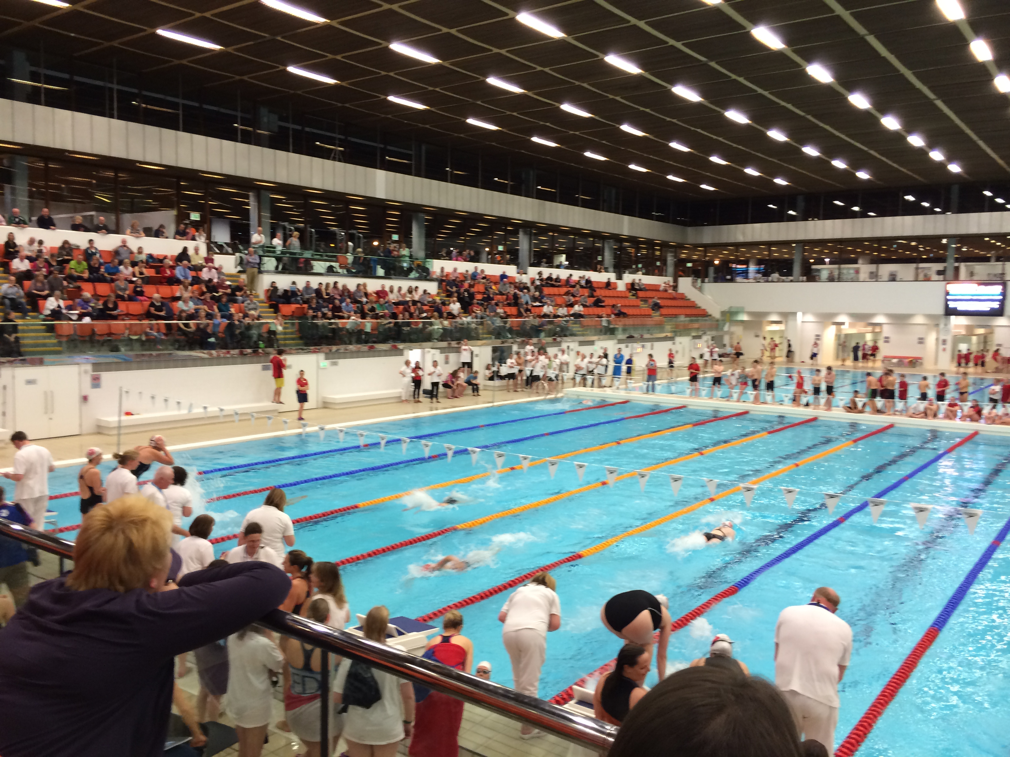 Warrender Baths Club swimming gala at the Royal Commonwealth Pool, Edinburgh. 2013 gala to celebrate 125 year anniversary of Warrender Baths Club. A boom was been placed in the middle of the pool at this gala to convert the pool to 25 metres.